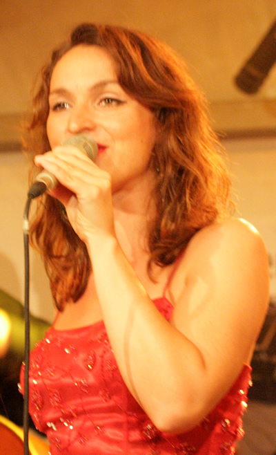 Sónnica Yepes